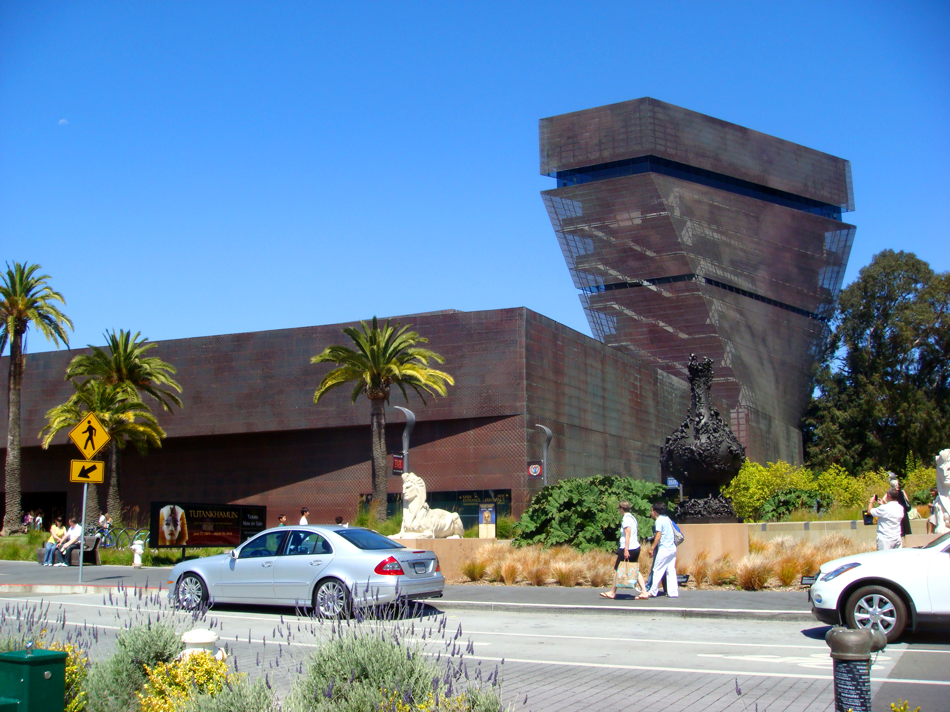 De Young Museum, San Francisco, in 2009 during the Tutankhamun exhibition